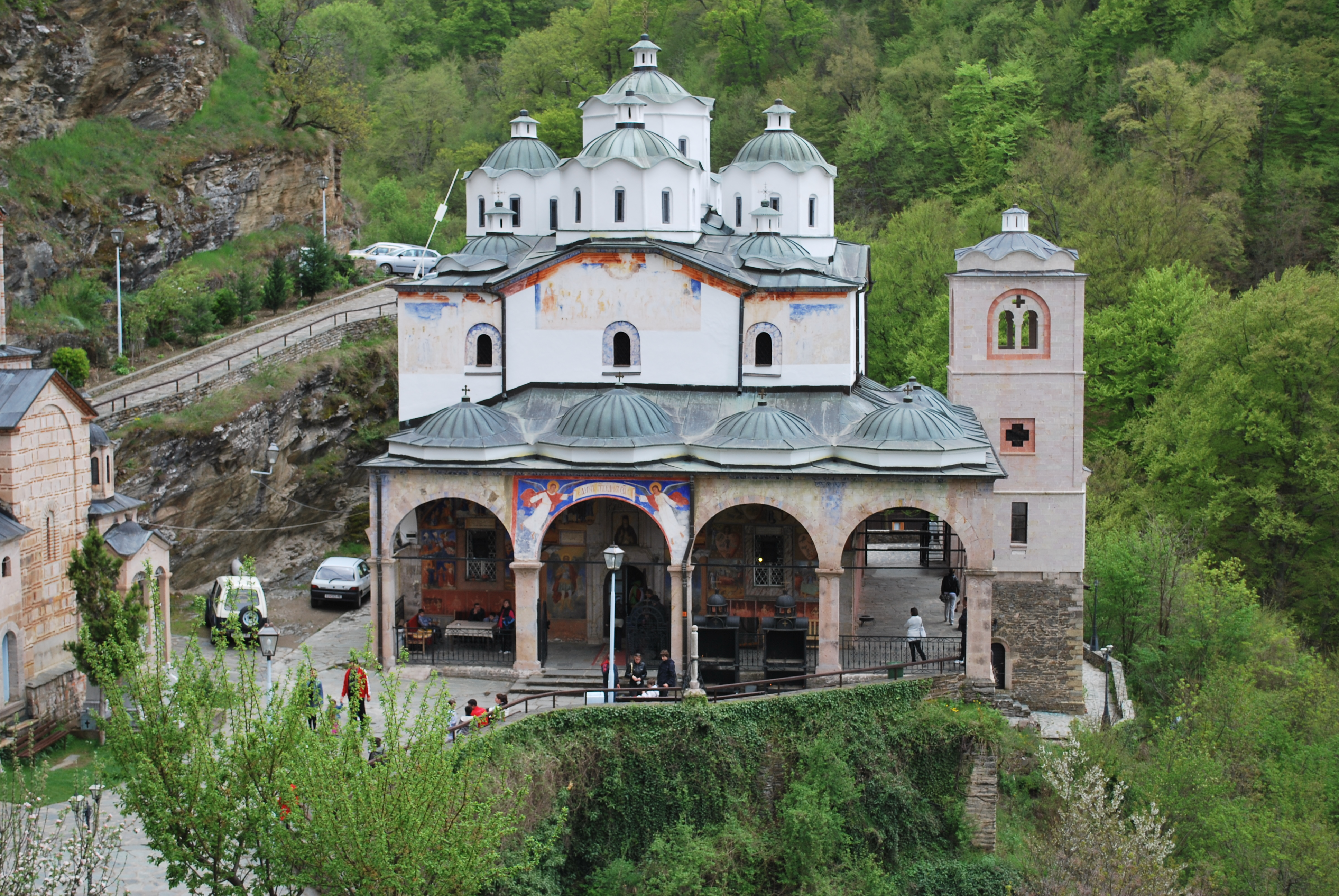 St. Joachim of Osogovo Church, the main church of Osogovo Monastery near Kriva Palanka, Macedonia